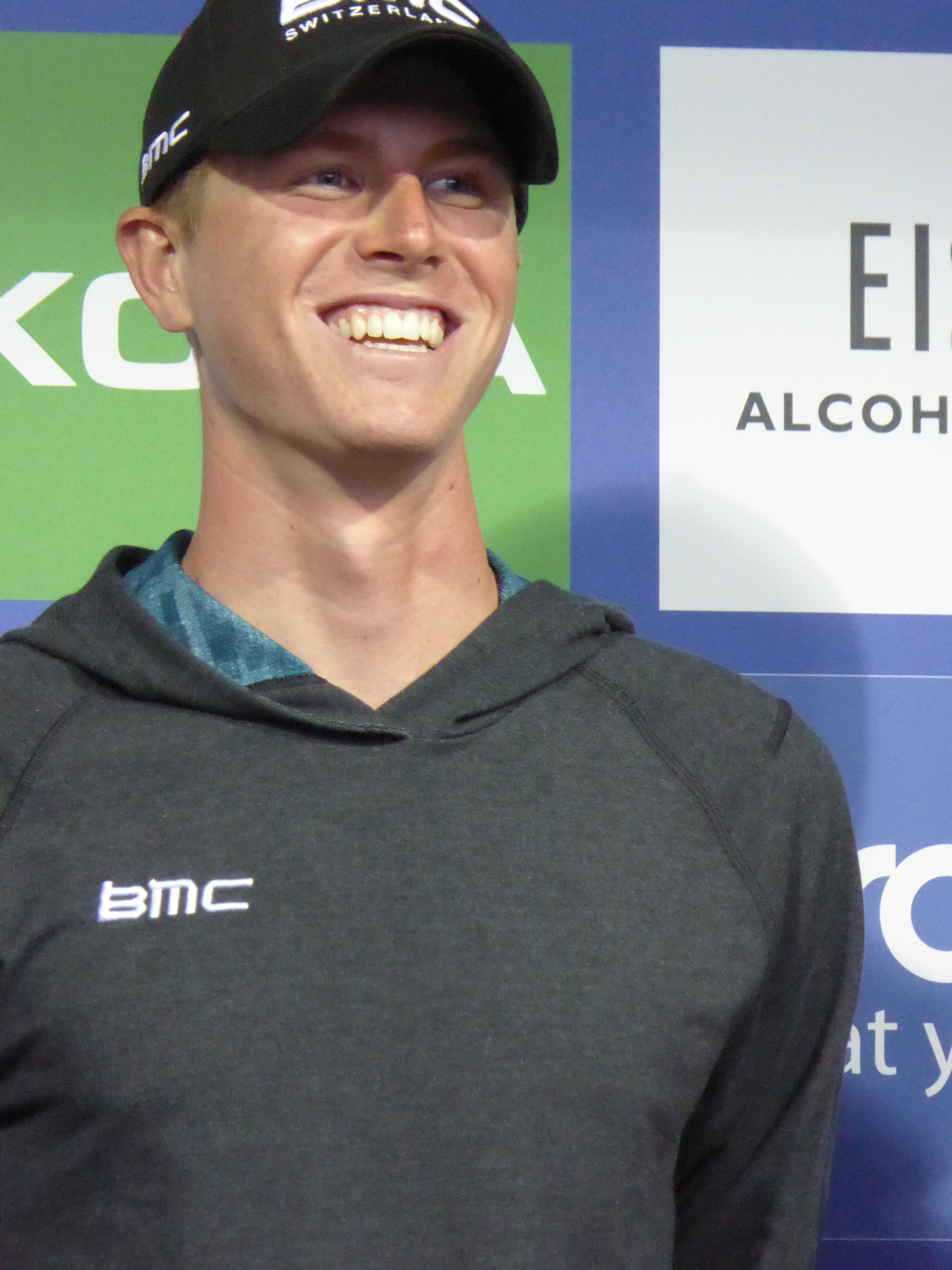 Taylor Eisenhart (BMC Racing Team stagiaire), pictured at the 2016 Tour of Britain team presentation in Glasgow on 3 September 2016.